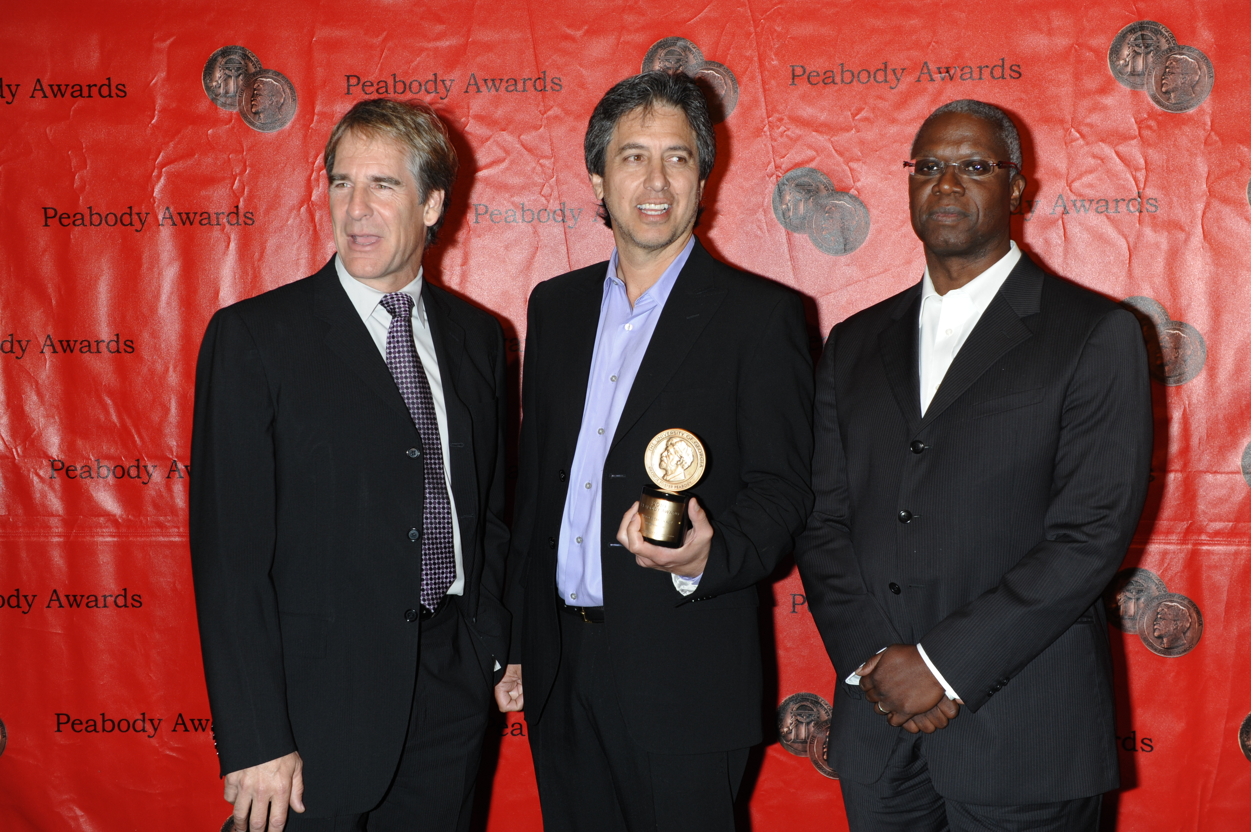 PHOTO CREDIT: ANDERS KRUSBERG / PEABODY AWARDS 70th Annual Peabody Awards Luncheon Waldorf=Astoria Hotel May 23, 2011